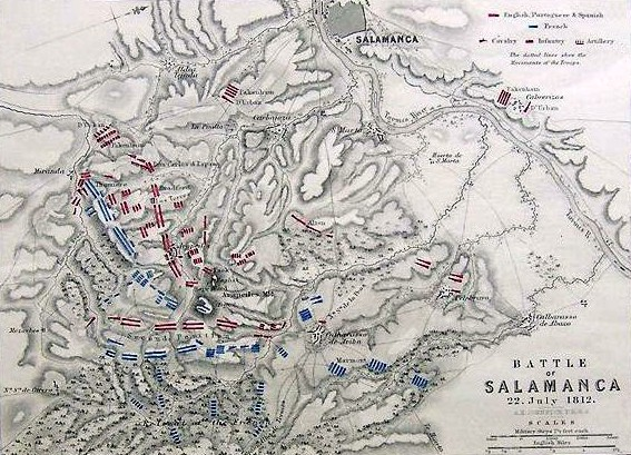 W & A.K. Johnston Battle of Salamanca 22 July 1812 published by William Blackwood & Sons 1870